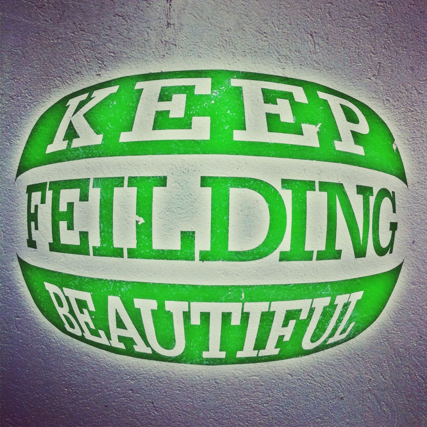 A discreet sign painted on a business in Feilding's CBD as a reminder to keep the town litter free, tidy and beautiful.